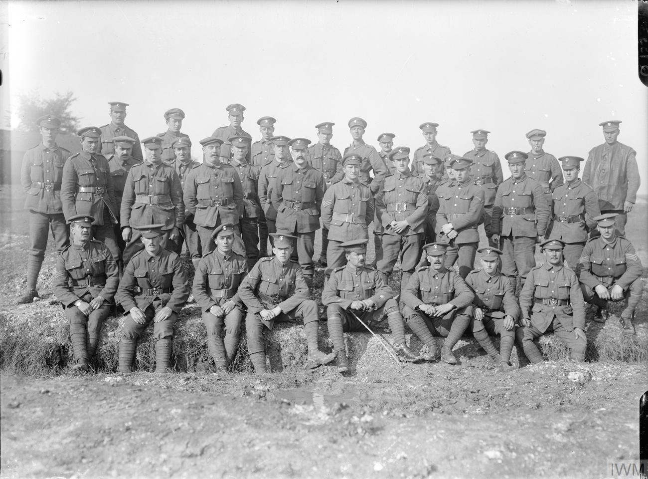 The Battle of the Somme, July-november 1916 Group from the Northumberland Fusiliers, 149th (Northumbrian) Brigade, 50th (Northumbrian) Division, near Millencourt, October 1916. Exact unit unknown, but believed to be one of: 1/4th, 1/5th, 1/6th or 1/7th Battalions, Northumberland Fusiliers